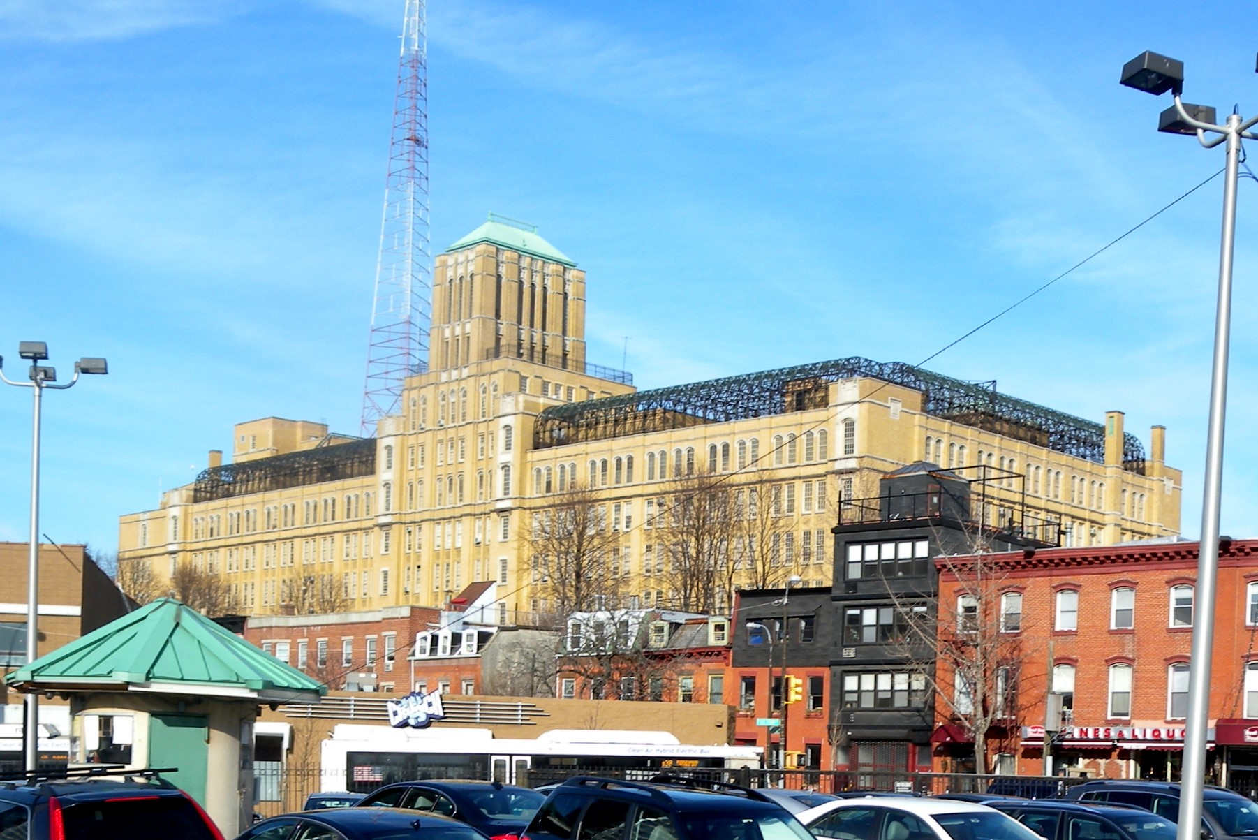 Looking northeast across Ashland Place parking lot at Brooklyn Tech on a sunny afternoon. ZIP 11243.